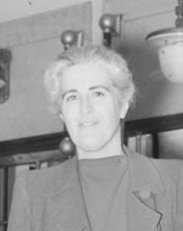 Pauline Vanier (1898-1991). Vice-regal consort. Chancellor of the University of Ottawa. She was the first non-political woman to be appointed to the Queen's Privy Council for Canada.